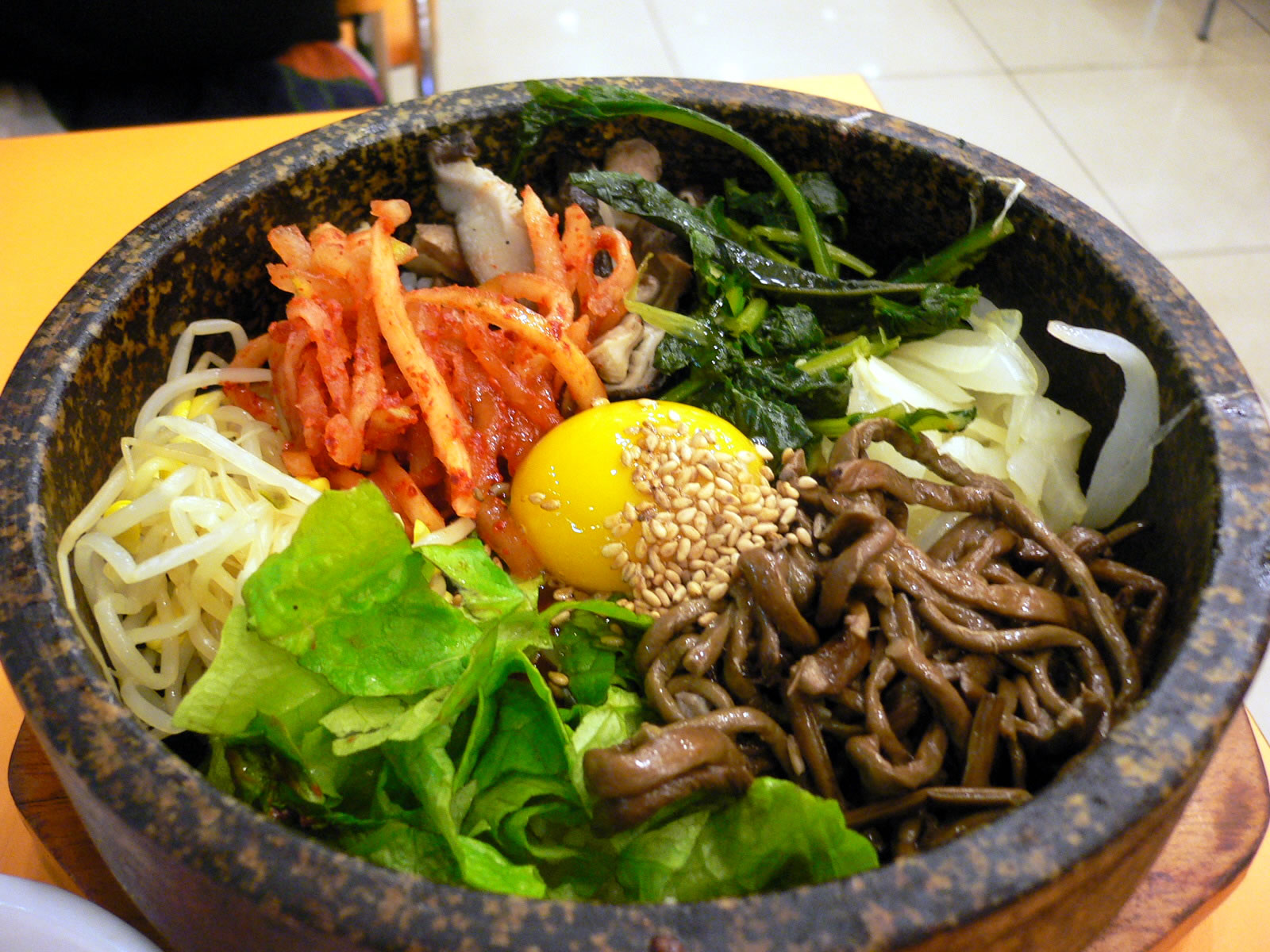 Dolsot bibimbap, a Korean traditional dish comprising various namul and rice